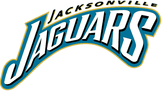 Jacksonville Jaguars old wordmark used from 1995 to 1998.